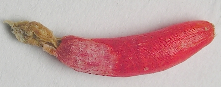 Fruit of Mammillaria prolifera (the length is 17 mm)